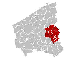 Location of Arrondissement Tielt in Belgium.